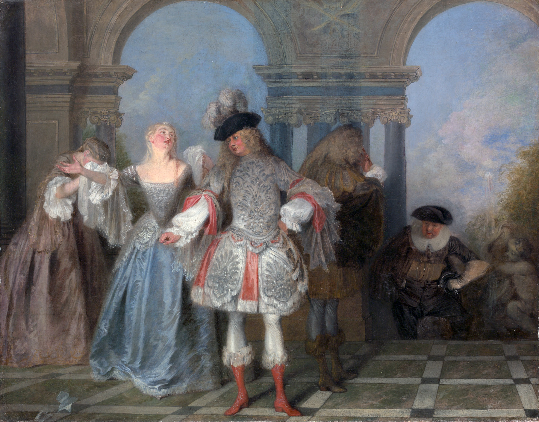 The French Comedians by Antoine Watteau